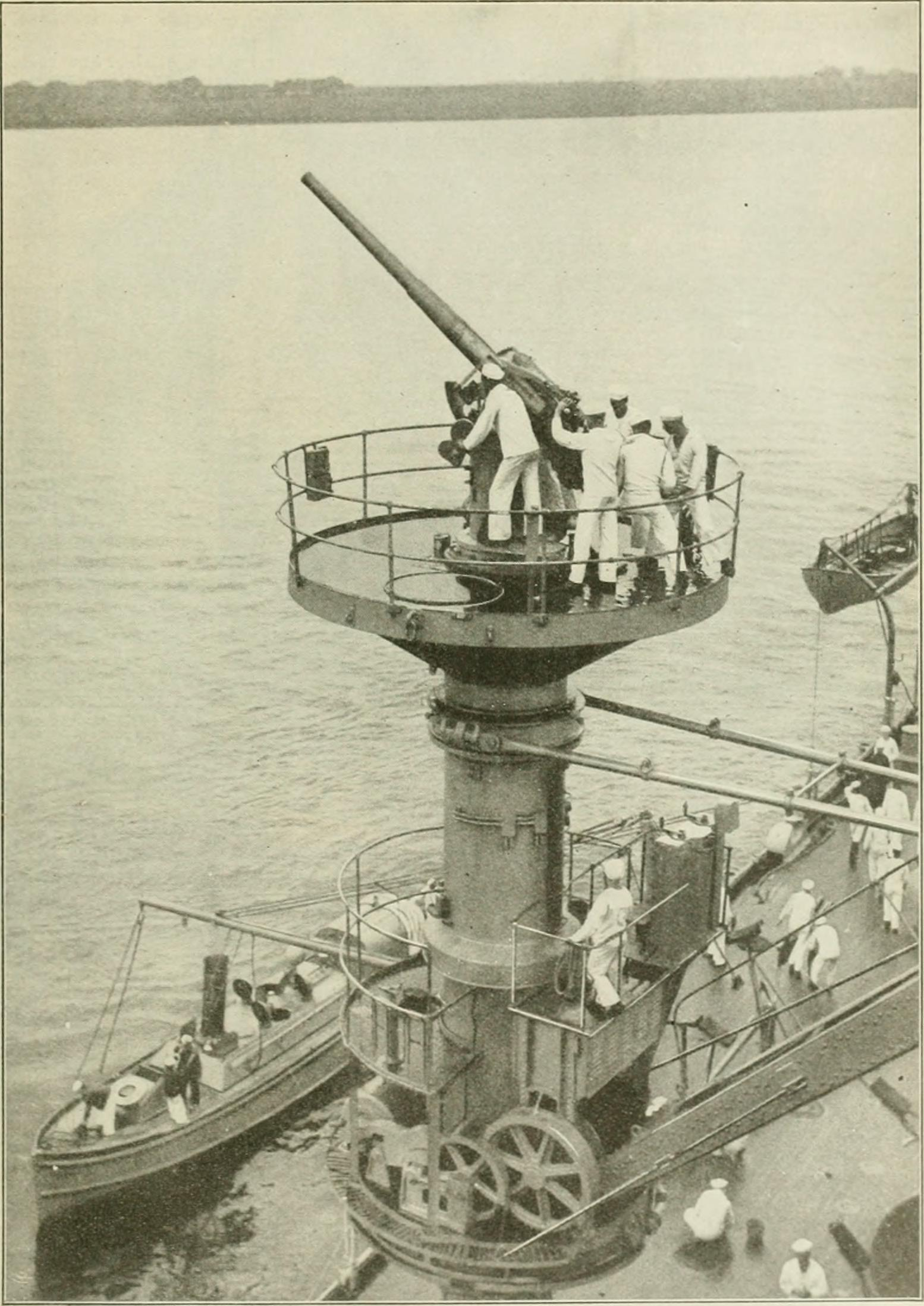 Title: Popular science monthly Year: 1872 (1870s) Authors: Subjects: Science Publisher: New York : D. Appleton Text Appearing Before Image: (i,j(i Introducinsf Our First Anti-Aircraft Ciun Text Appearing After Image: Fhoto Ccnvral N.ws Mounted on a special platform forty feet high on the battleship Texas is a three-inchnaval gun adjusted so that a high angle of elevation can be attained. It is said to bethe forerunner of a new type of anti-aircraft gun with which tliose most interested in ournaval and military preparedness will adorn the first- line battleships of the future 057 The Indians Conception of Ansfcls and Devils Below: Two totem poleswhich formerly markedthe headquarters of tribesin Old Mangel, Alaska.To the Indians thesedesignated a religious aswell as a clannish bond At left: A woodenmask carved and paintedin the elaborate styledear to the heart of theIroquois Indians and usedby a false-face society